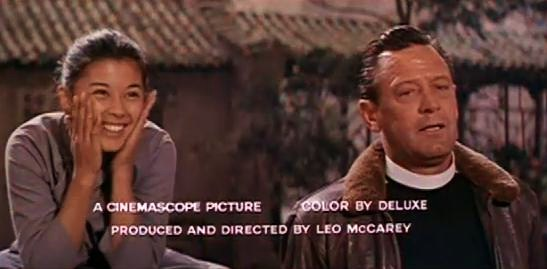 France Nuyen and William Holden in Satan Never Sleeps (1962) - trailer (cropped screenshot)